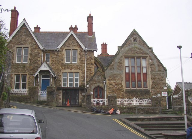 Tasker's Schools, Tower Hill, Haverfordwest The Tasker Charity was set up by Mrs Mary Tasker by her will dated 1684, funding Tasker's Charity School. The present school is presumably the Tasker-Milward School in Portfield.